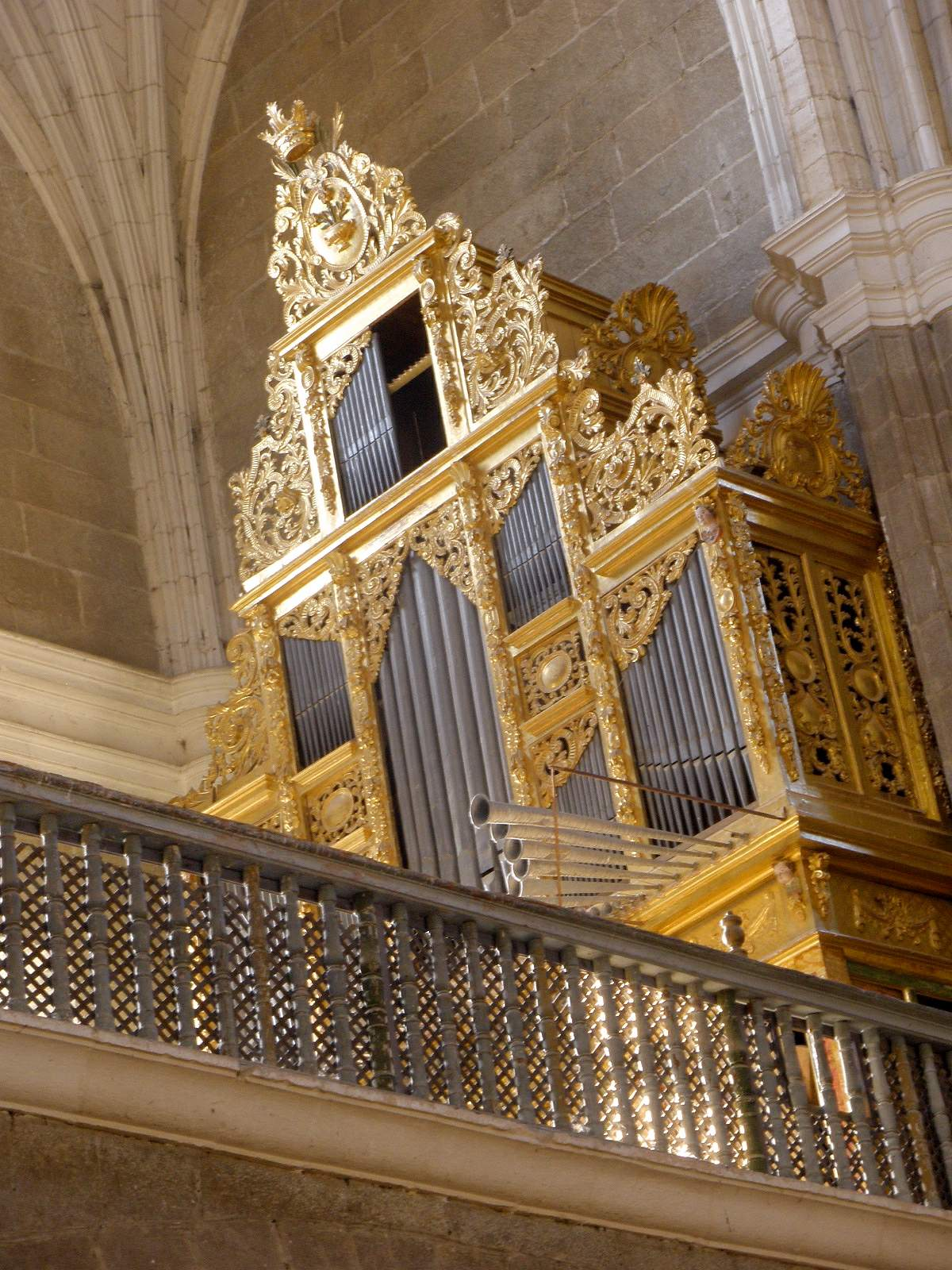 Organ in the Church of San Sebastián, Villacastín (Segovia)